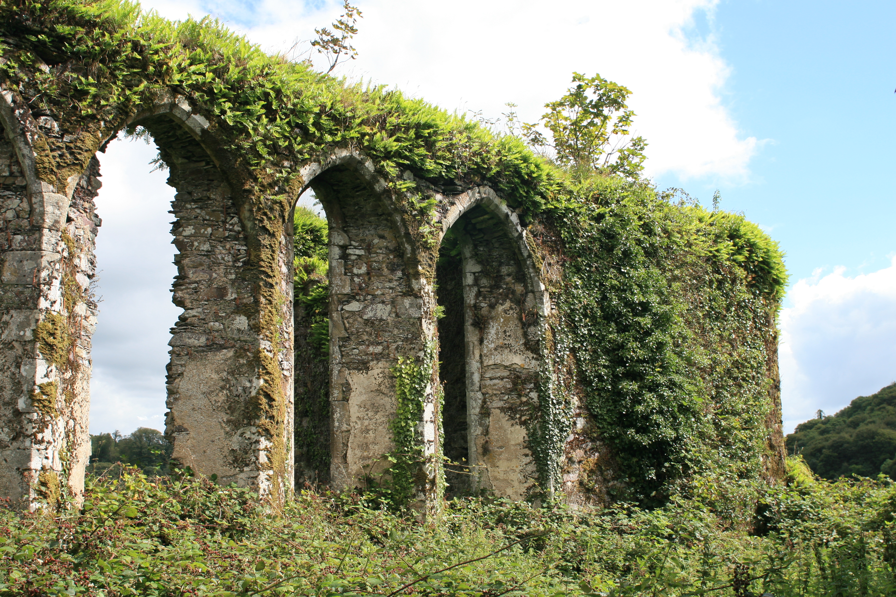 Molana Priory, County Waterford, Ireland Pointed Windows on the north side of the choir, 13th century